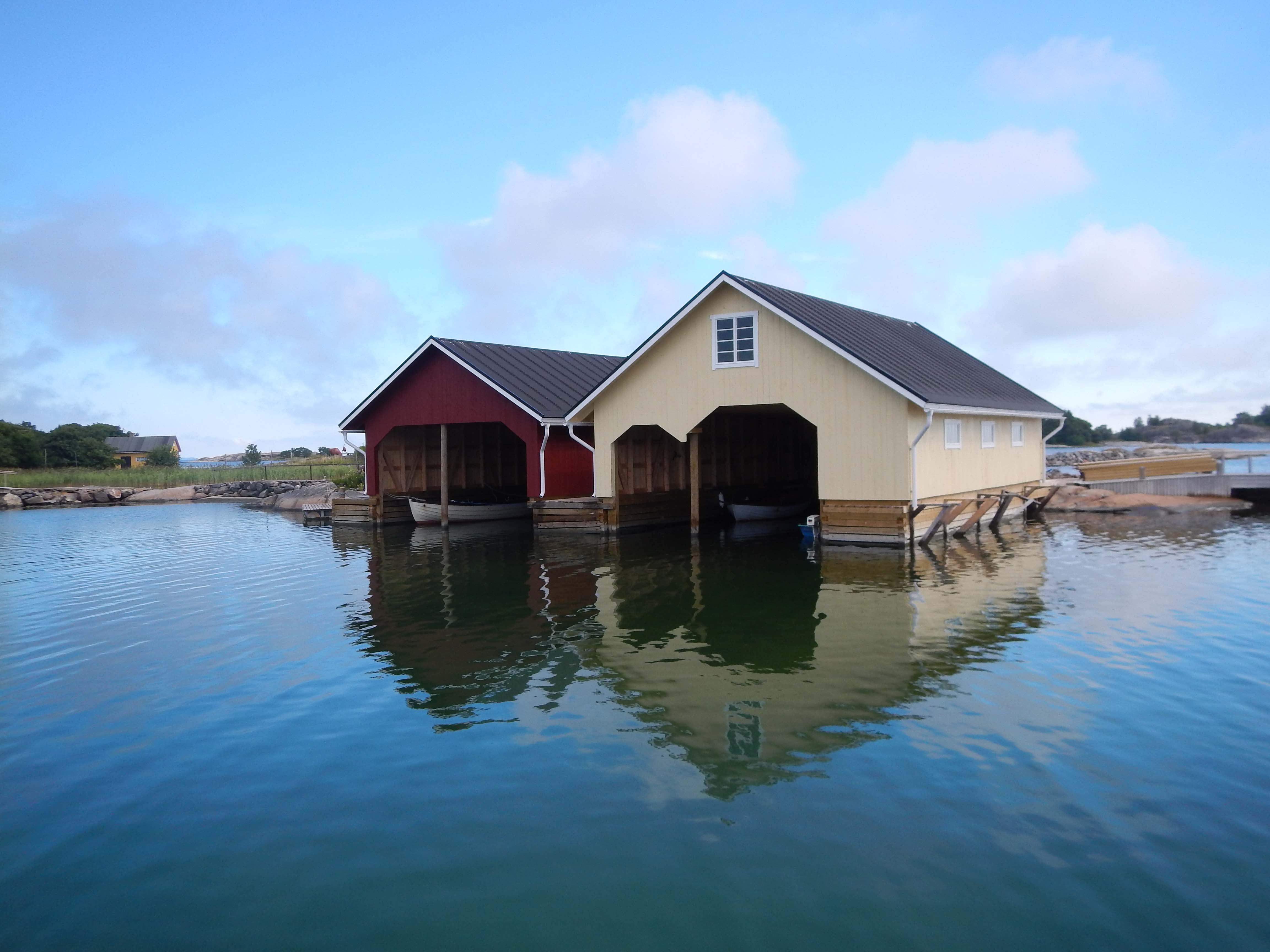 Island of Borstö in southernmost Nagu